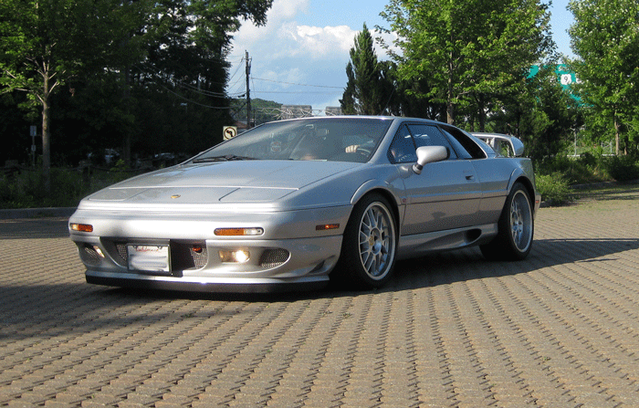 Lotus Esprit V8 2004